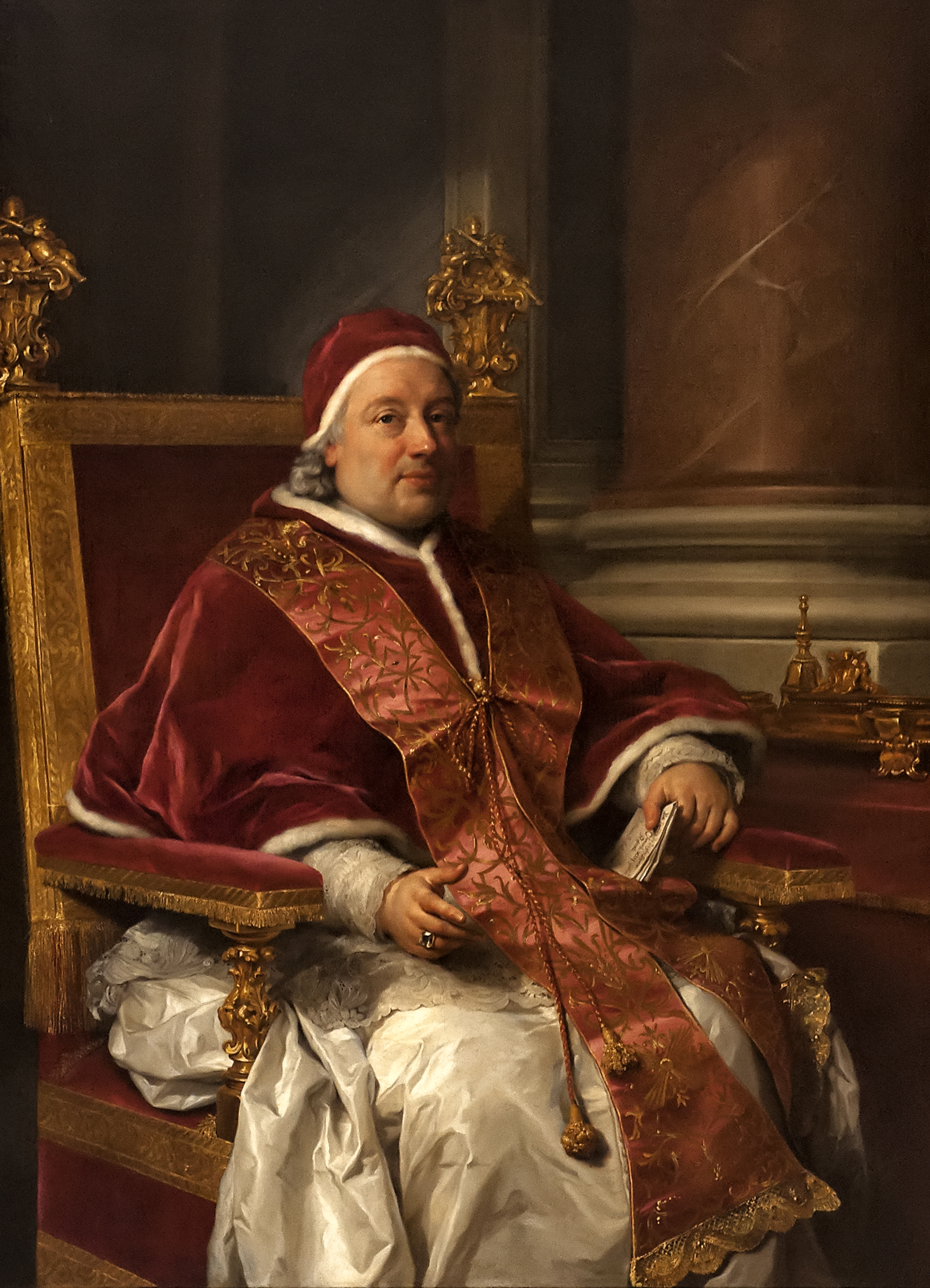 Anton Raphael Mengs (1728-1779) - Portrait of pope Clemens XIII (1758) - Bologna Pinacoteca Nazionale